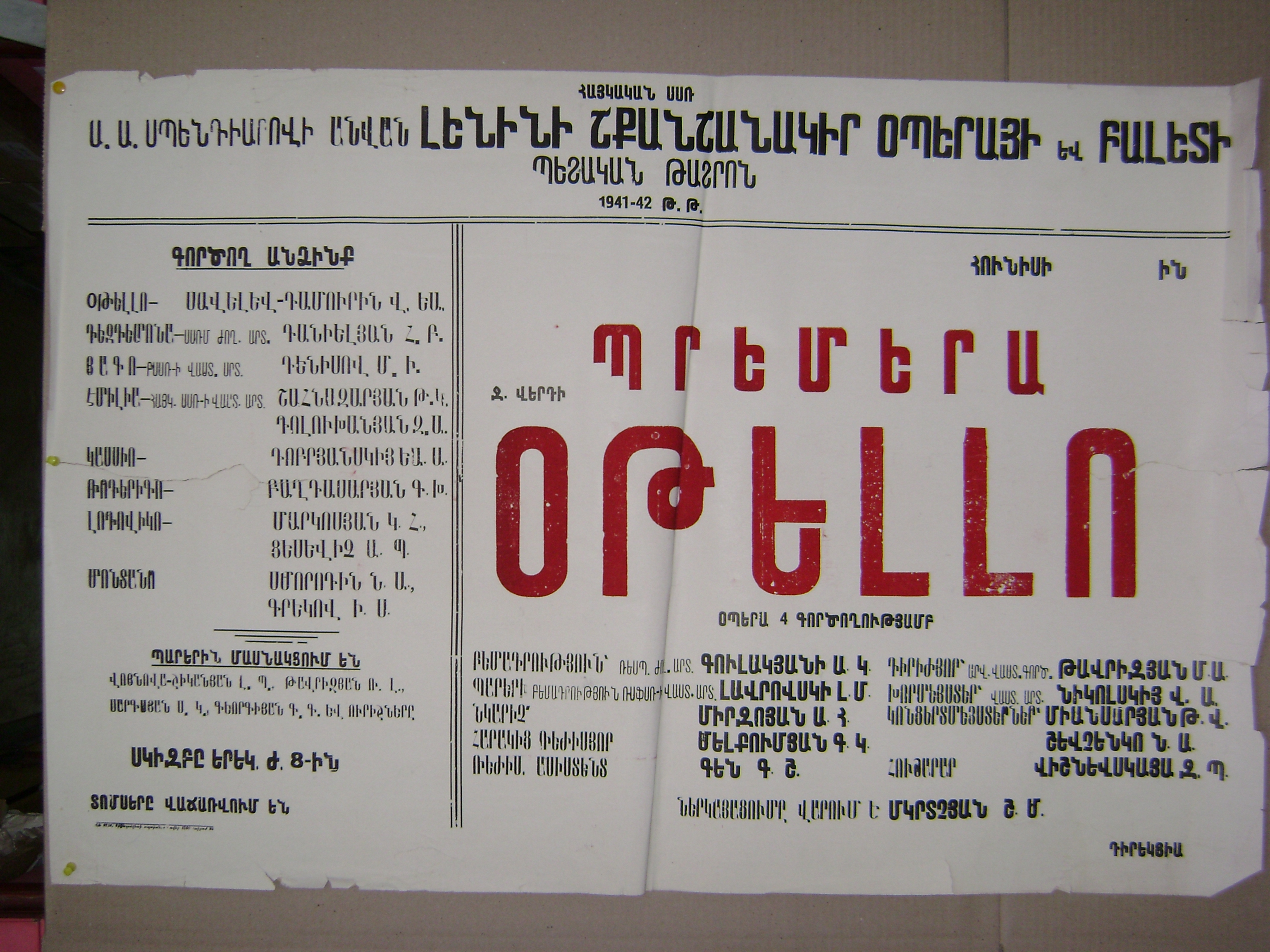 Otello opera poster, 1941, Yerevan Opera Theatre